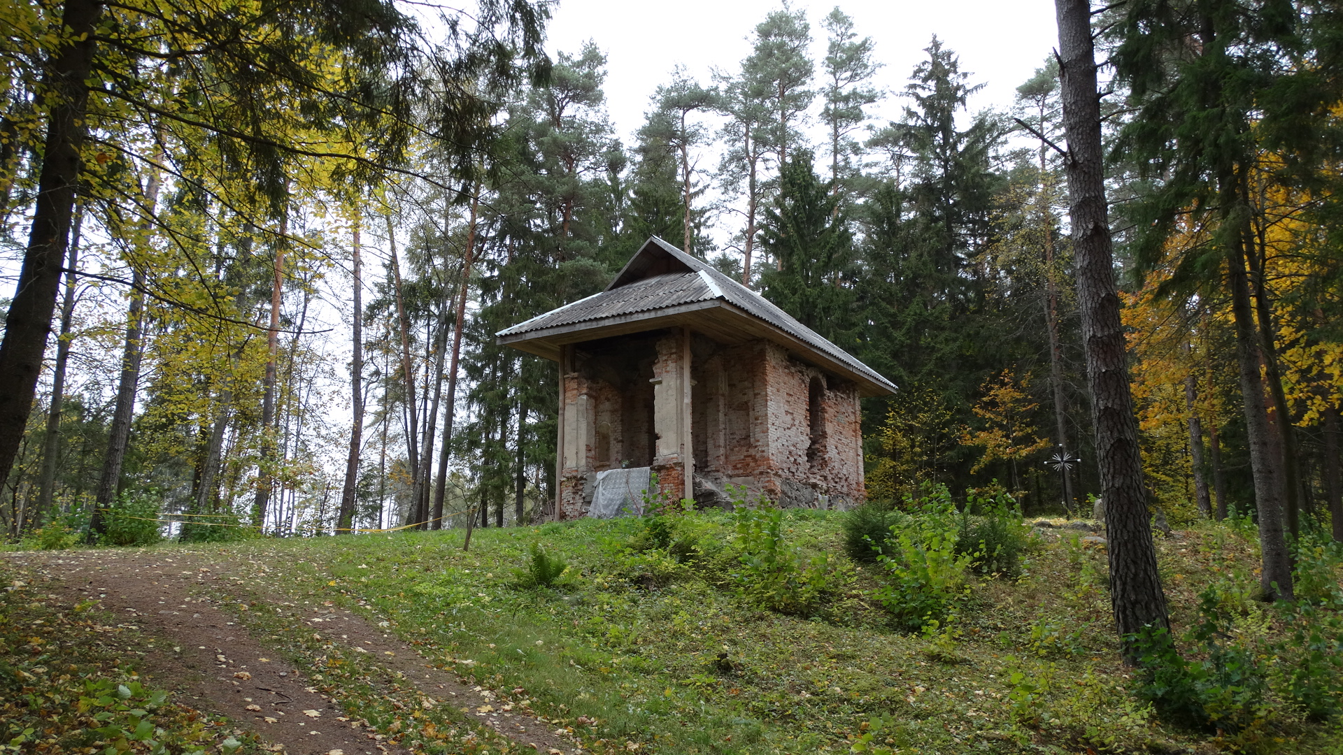 Chapel, Balkasodis, Alytus district, Lithuania